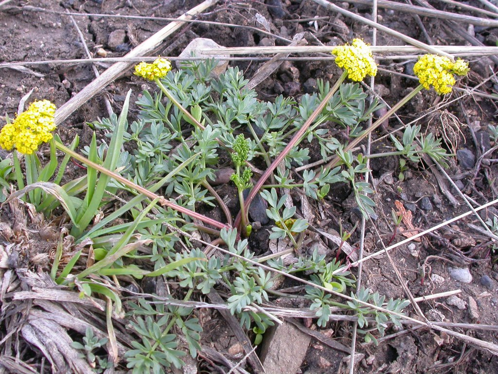 The broad bracts of the involucels are characteristic of this species.